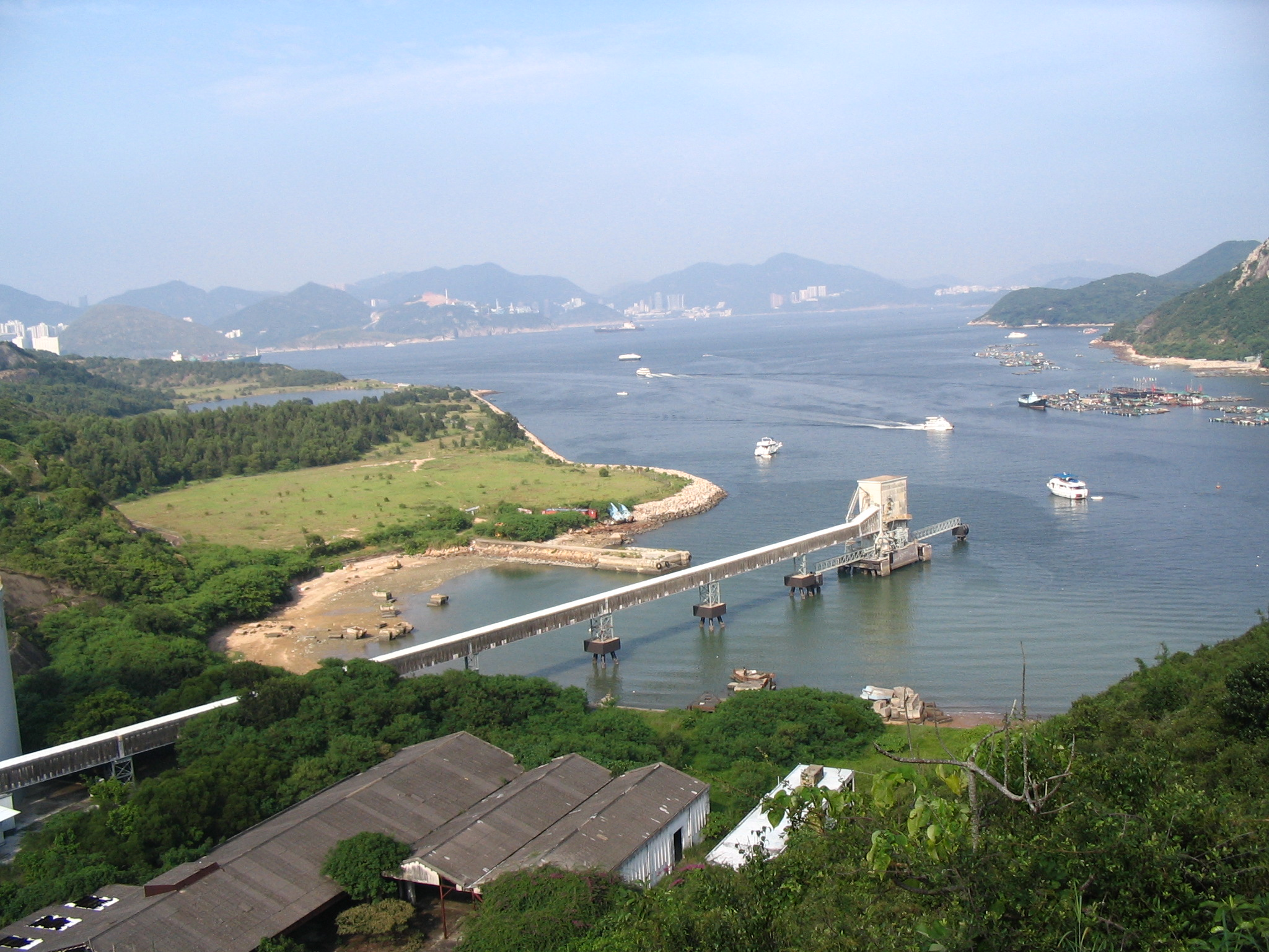 Photo of Sok Kwu Wan